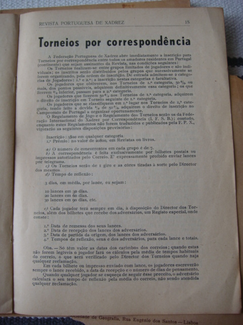 First anounce of a correspondance chess tounament in Portugal